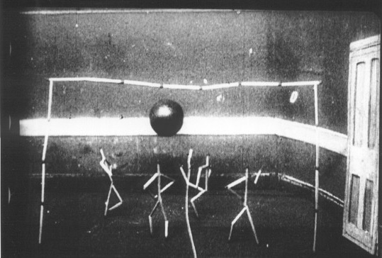 Screenshot from the film Animated Matches: Football (1914).